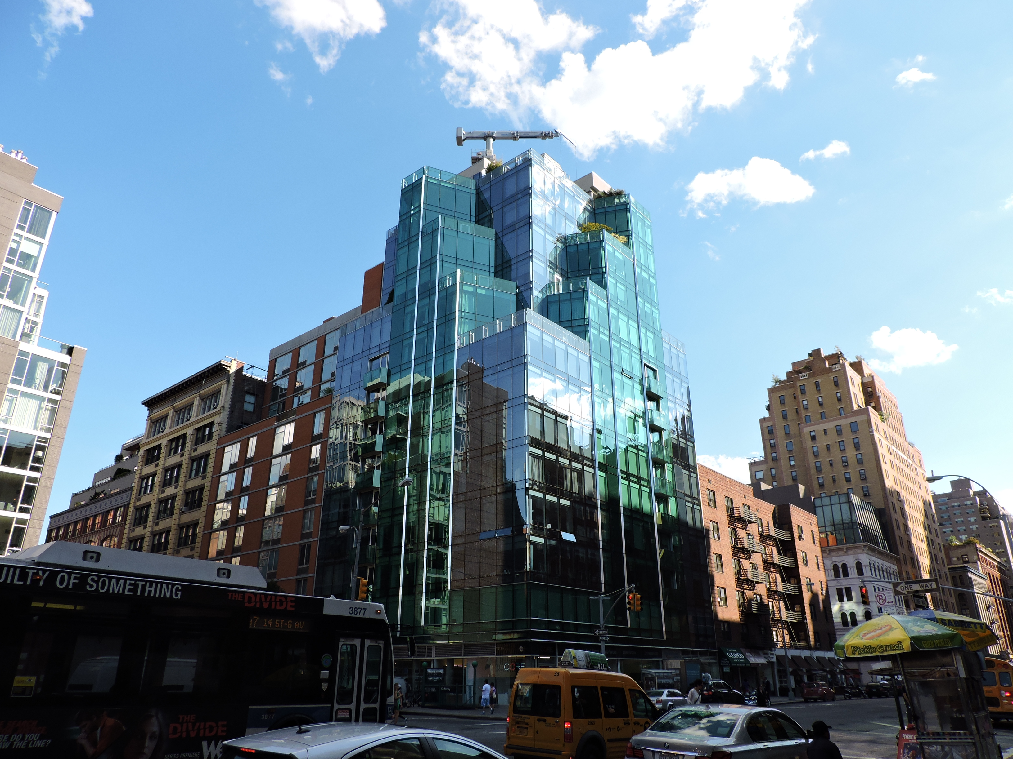 Chelsea, New York, NY, USA